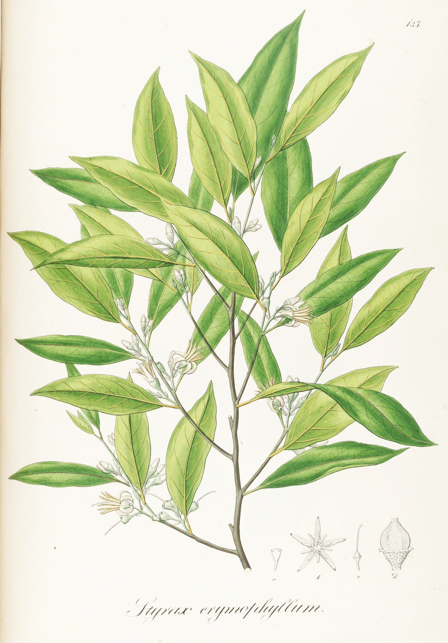 Plate from book